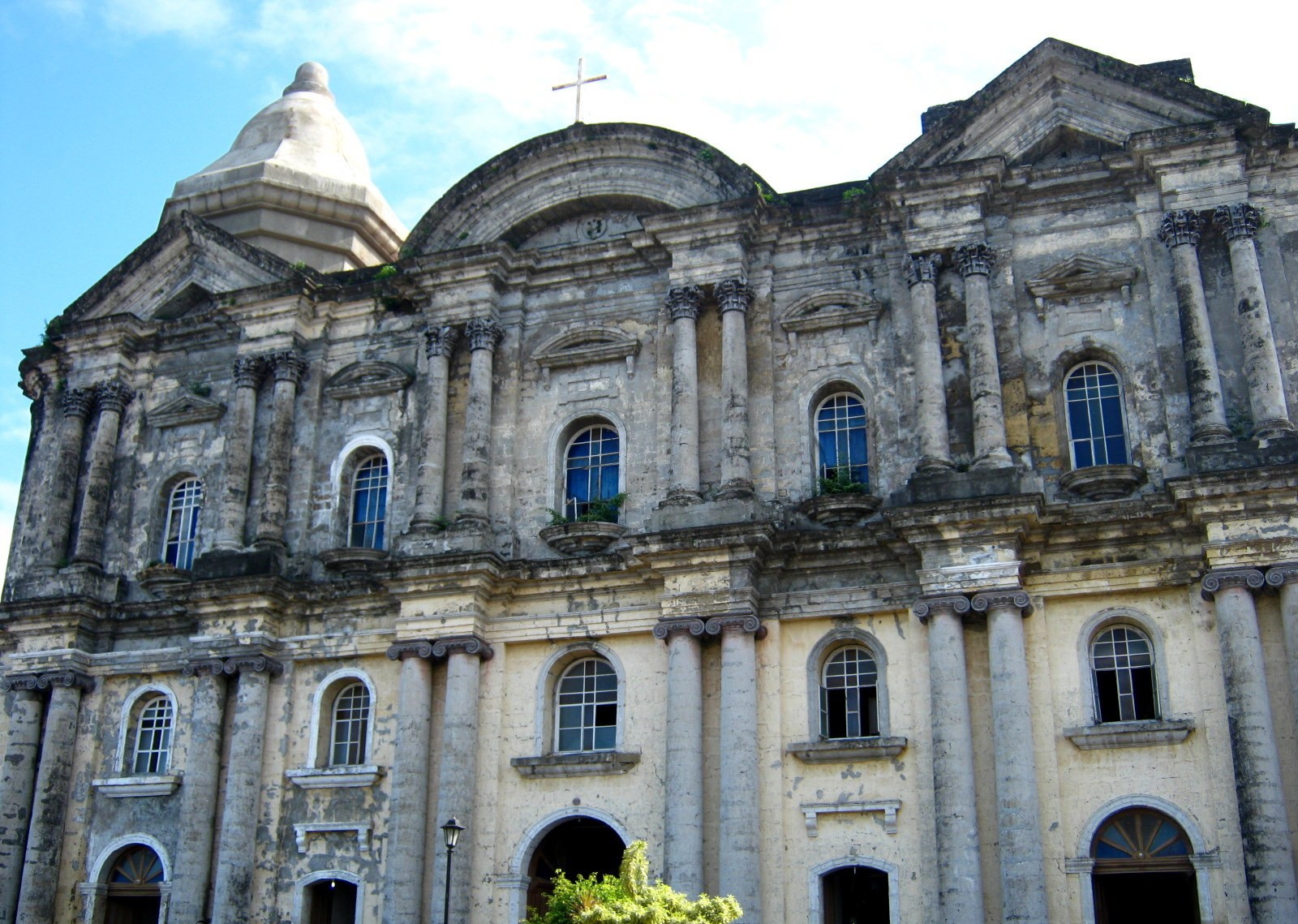 The facade of the Taal Basilica